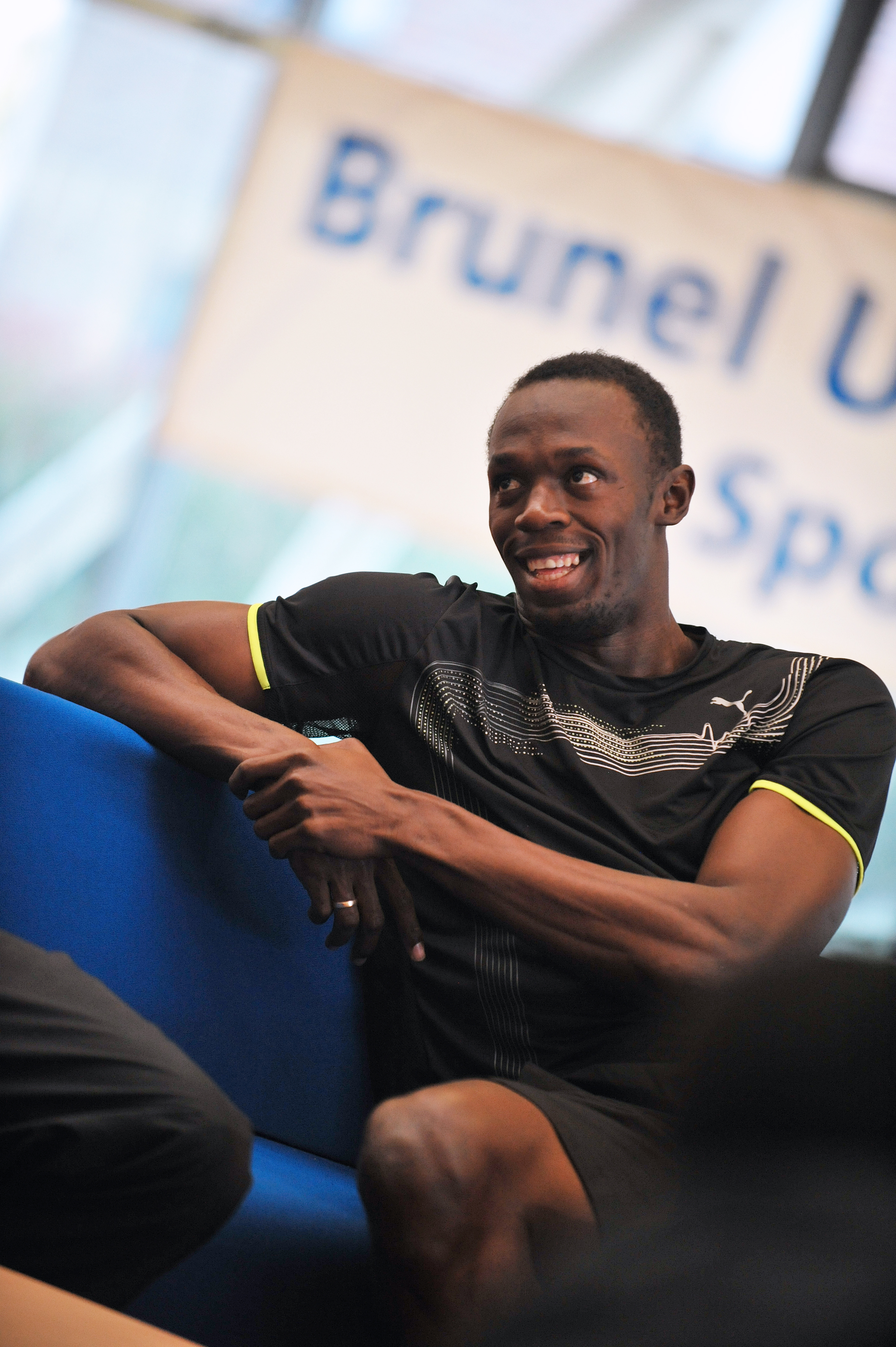 Usain Bolt